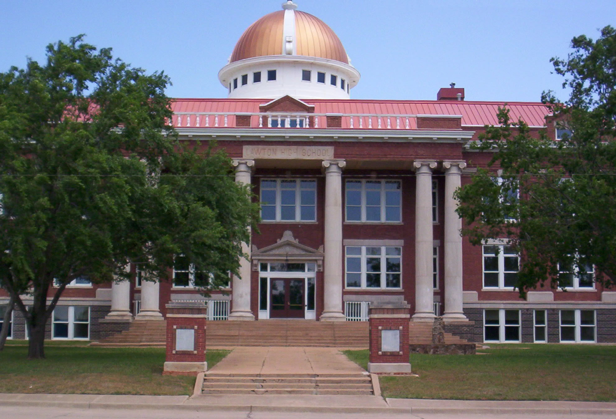 Picture of the Old Lawton High School Building